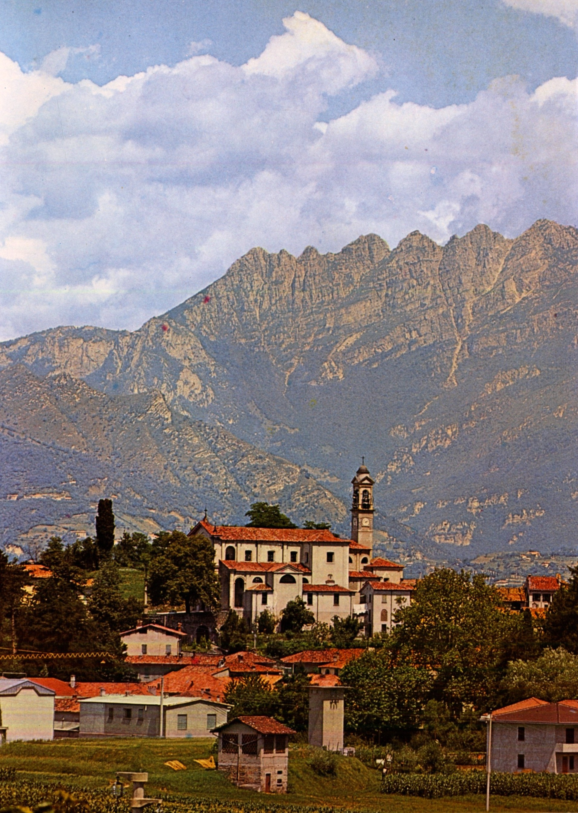 Town of Molteno in Lombardy, Italy. Old family photograph.